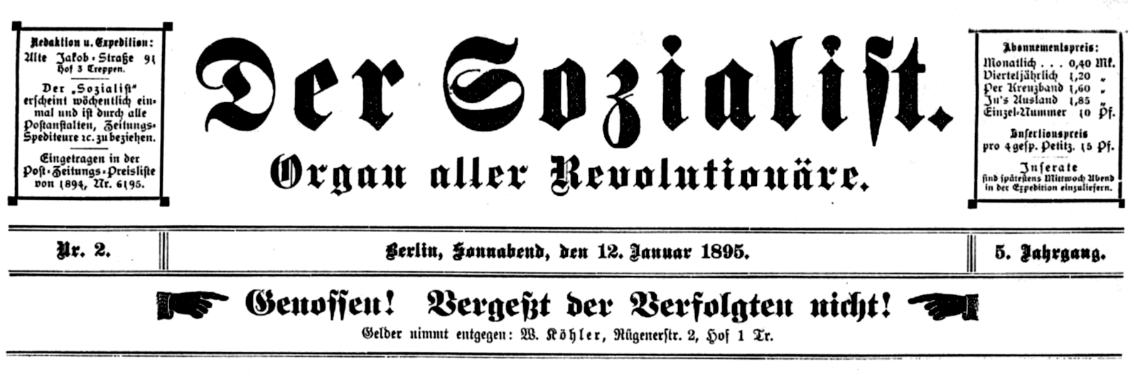 Front cover of „Der Sozialist“, a German anarchist periodical.